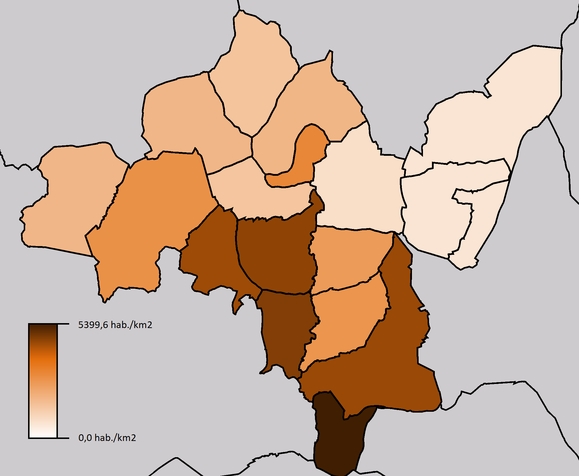 Population density of the civil parishes belonging to the Municipality of Maia (Portugal), according to the data of Census 2011